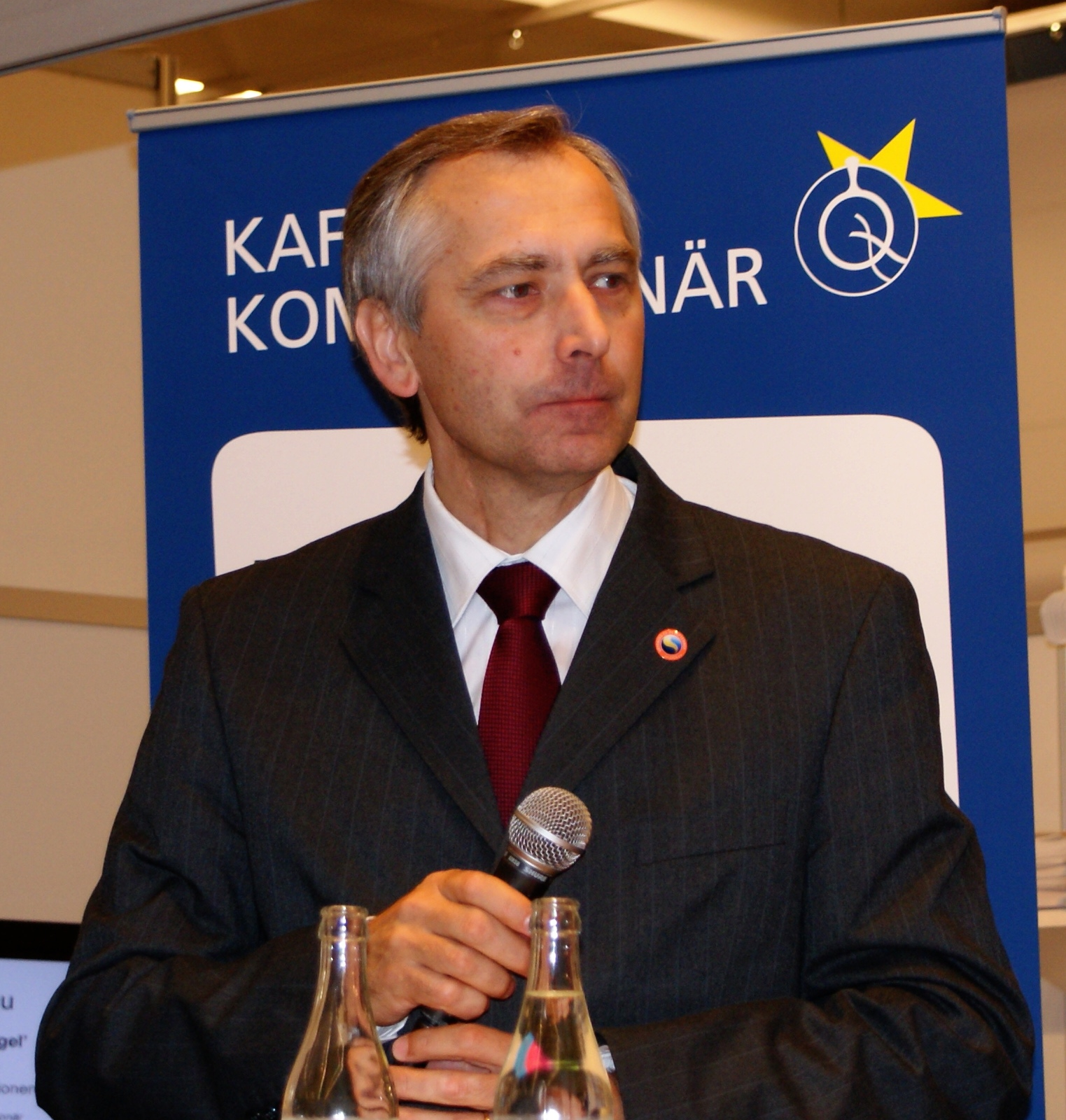 Ján Figeľ at the bookfair in Gothenburg 2009.